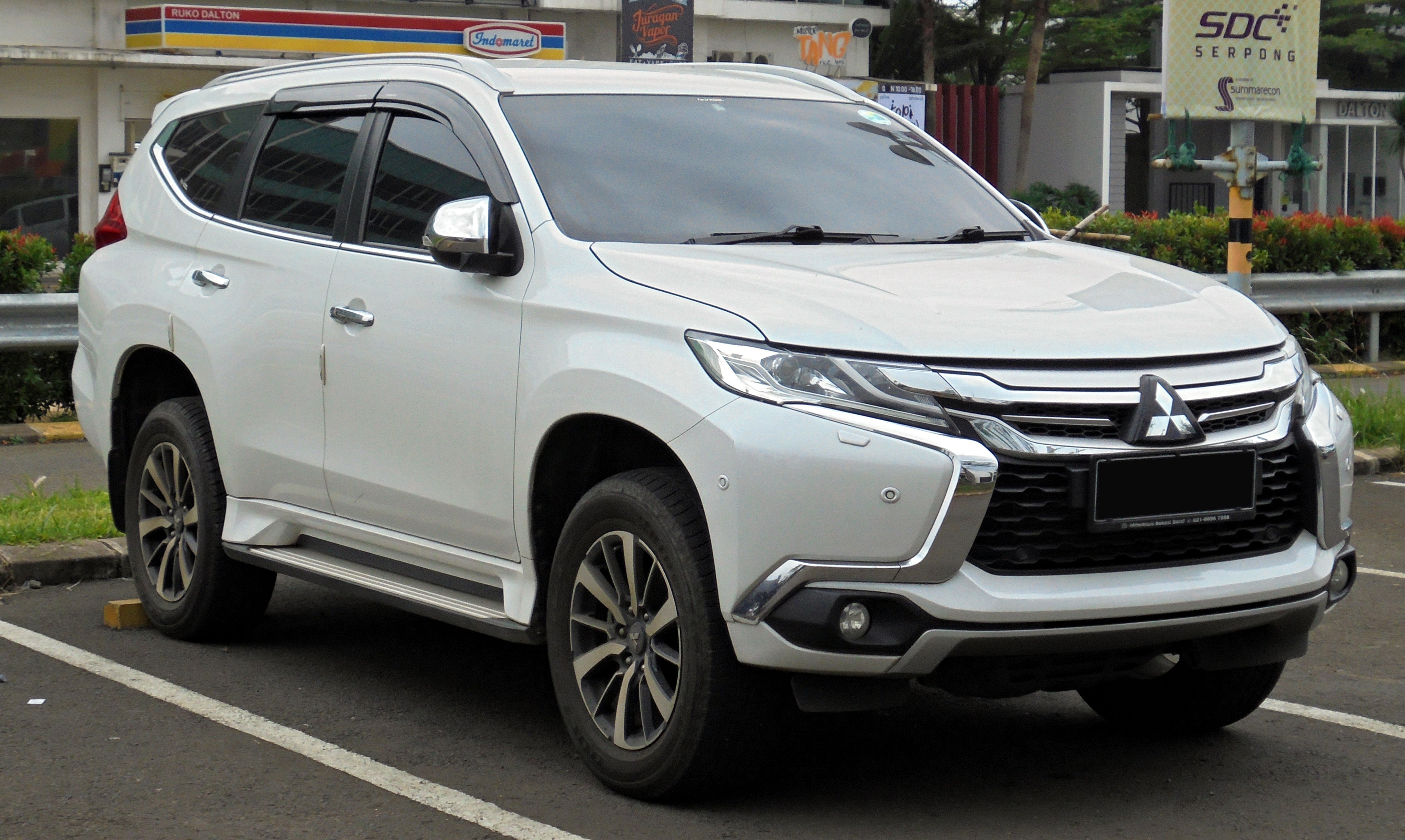 2017 Mitsubishi Pajero Sport 2.4 Dakar Ultimate wagon (KR1W) photographed in South Tangerang, Banten, Indonesia.